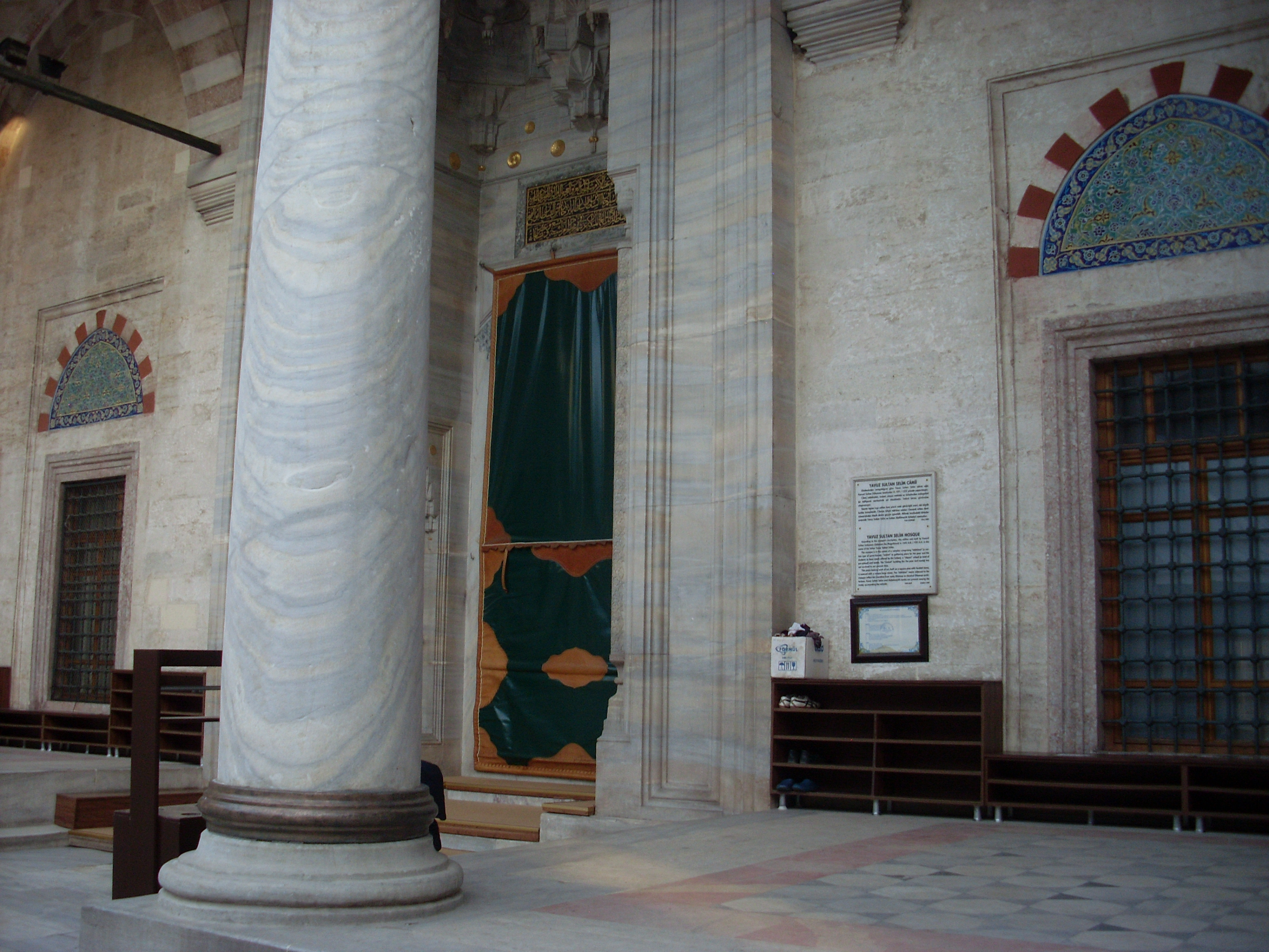 İstanbul - Yavuz Selim Mosque - Mart 2013 - r7